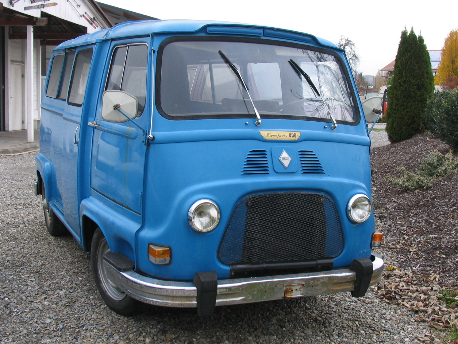 Renault Estafette